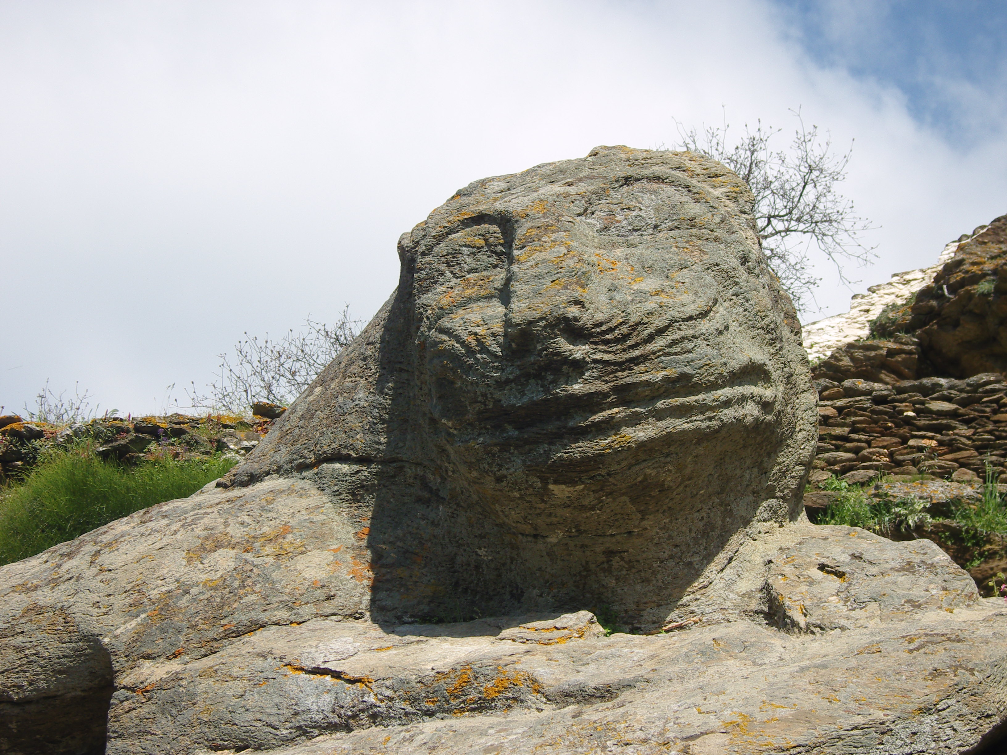 Head of archaic statue